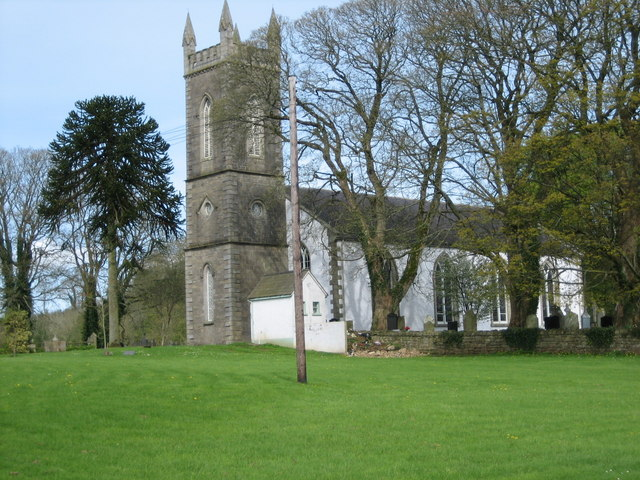 Rosslea Parish Church (RC)